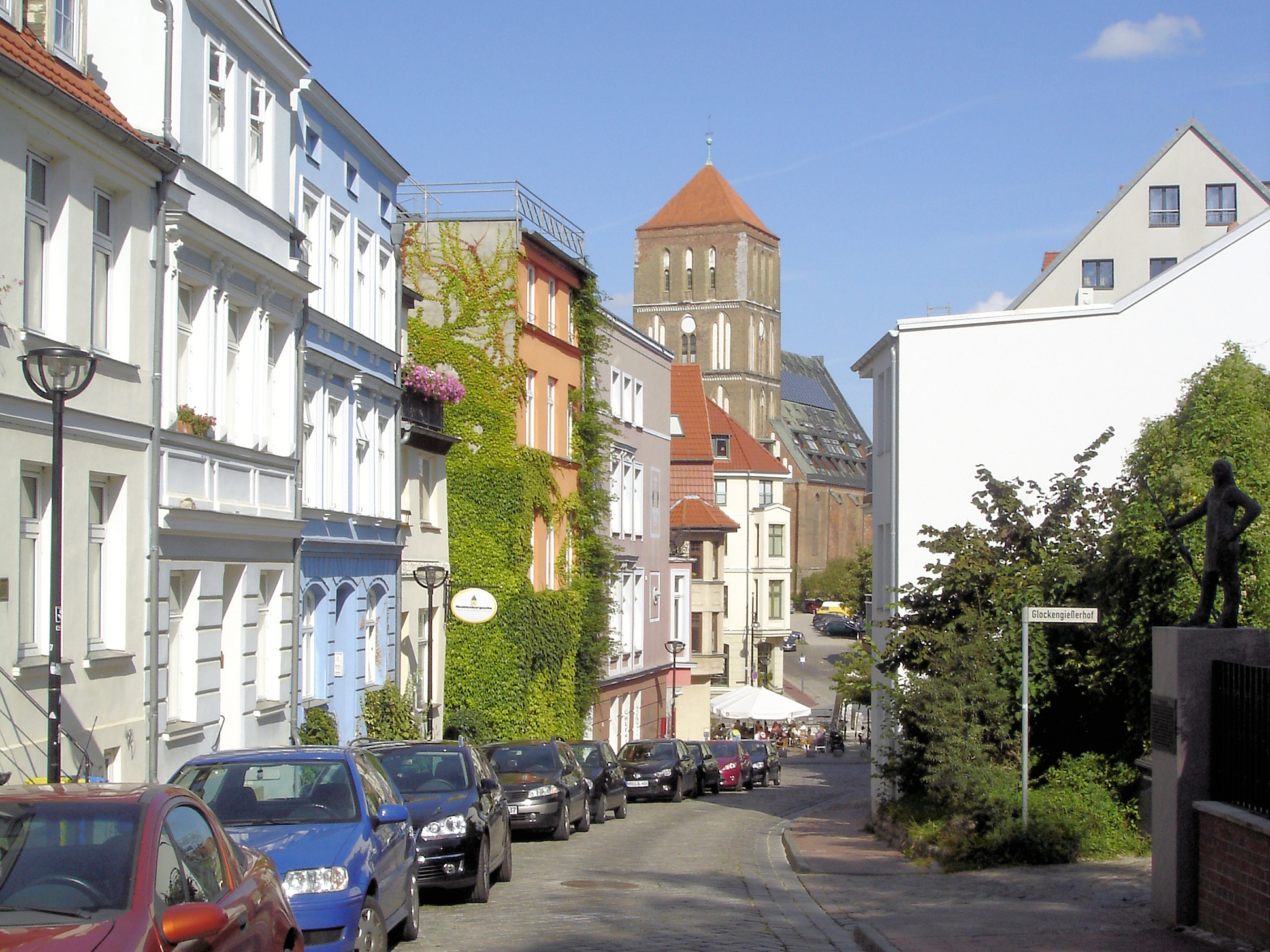 Street in the historic city of Rostock